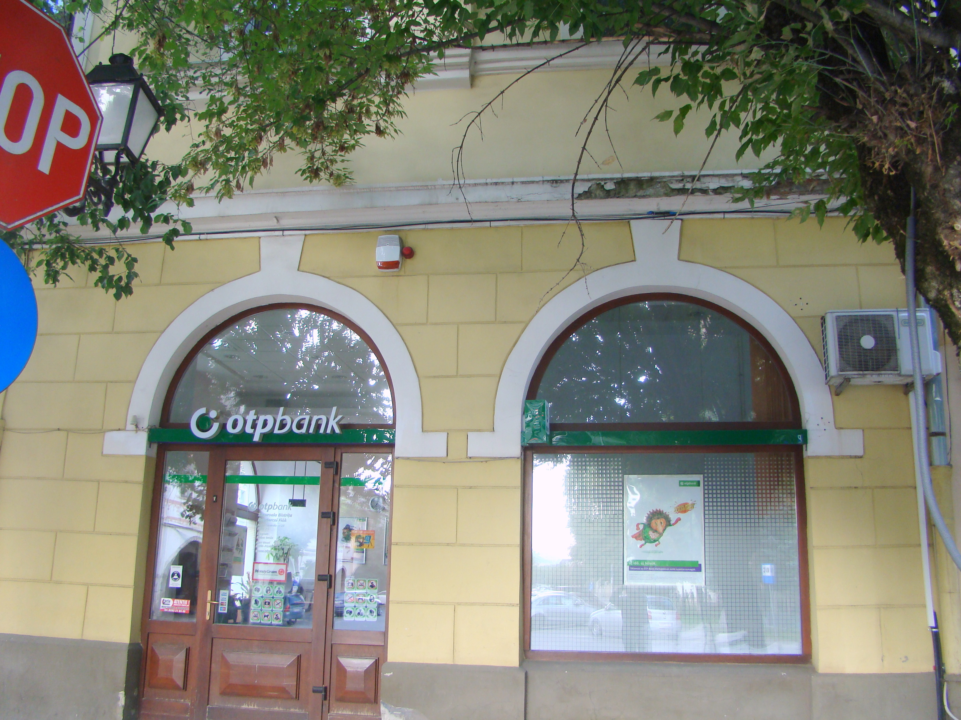 House, historic monument, in Bistrița, Piața Centrală 25